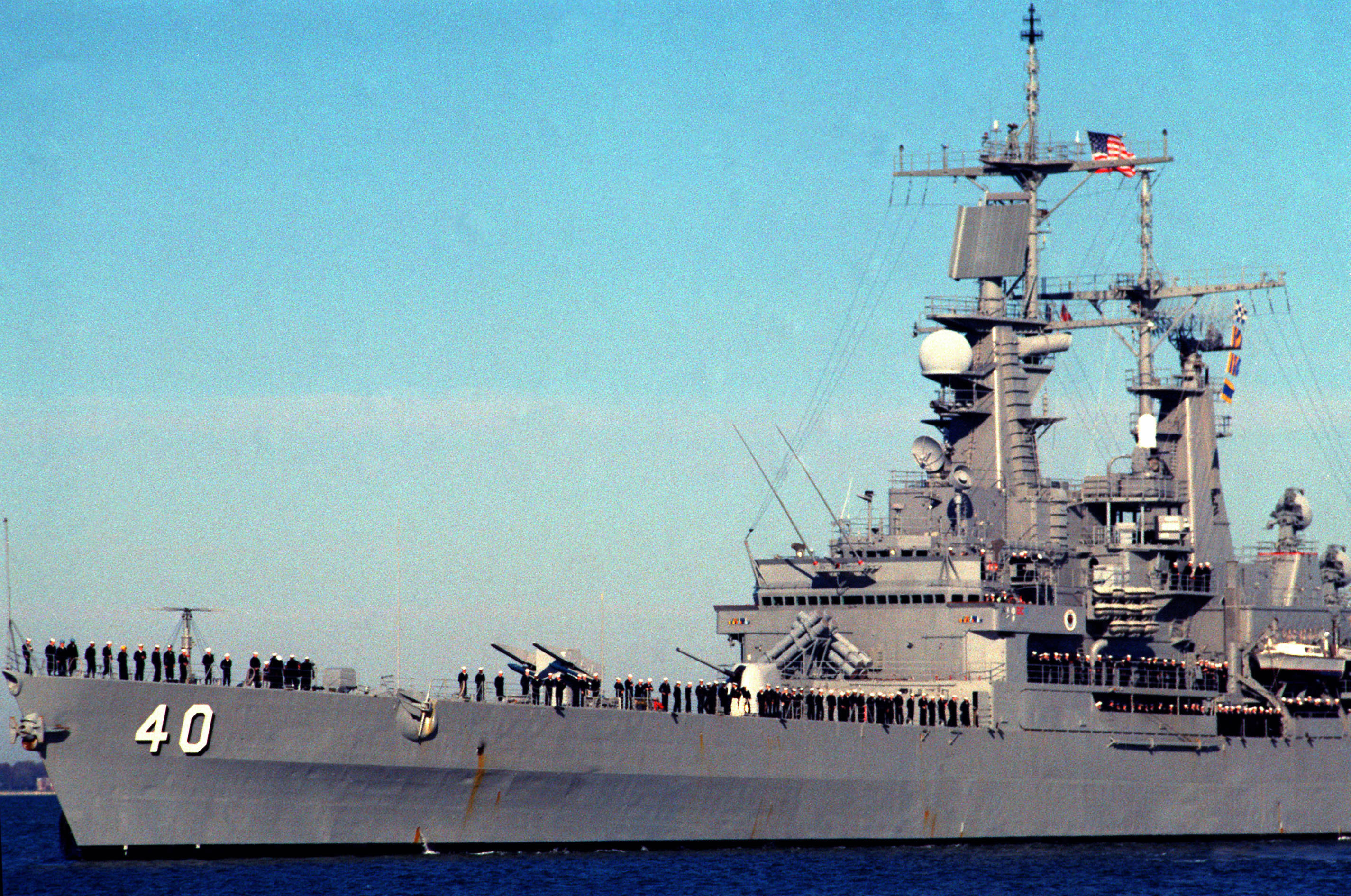 Crewmen man the rails of the nuclear-powered guided missile cruiser USS MISSISSIPPI (CGN 40) as it enters the harbor. The MISSISSIPPI is returning to its home port after a 6-month deployment. Location: NAVAL AIR STATION, NORFOLK, VIRGINIA (VA) UNITED STATES OF AMERICA (USA)